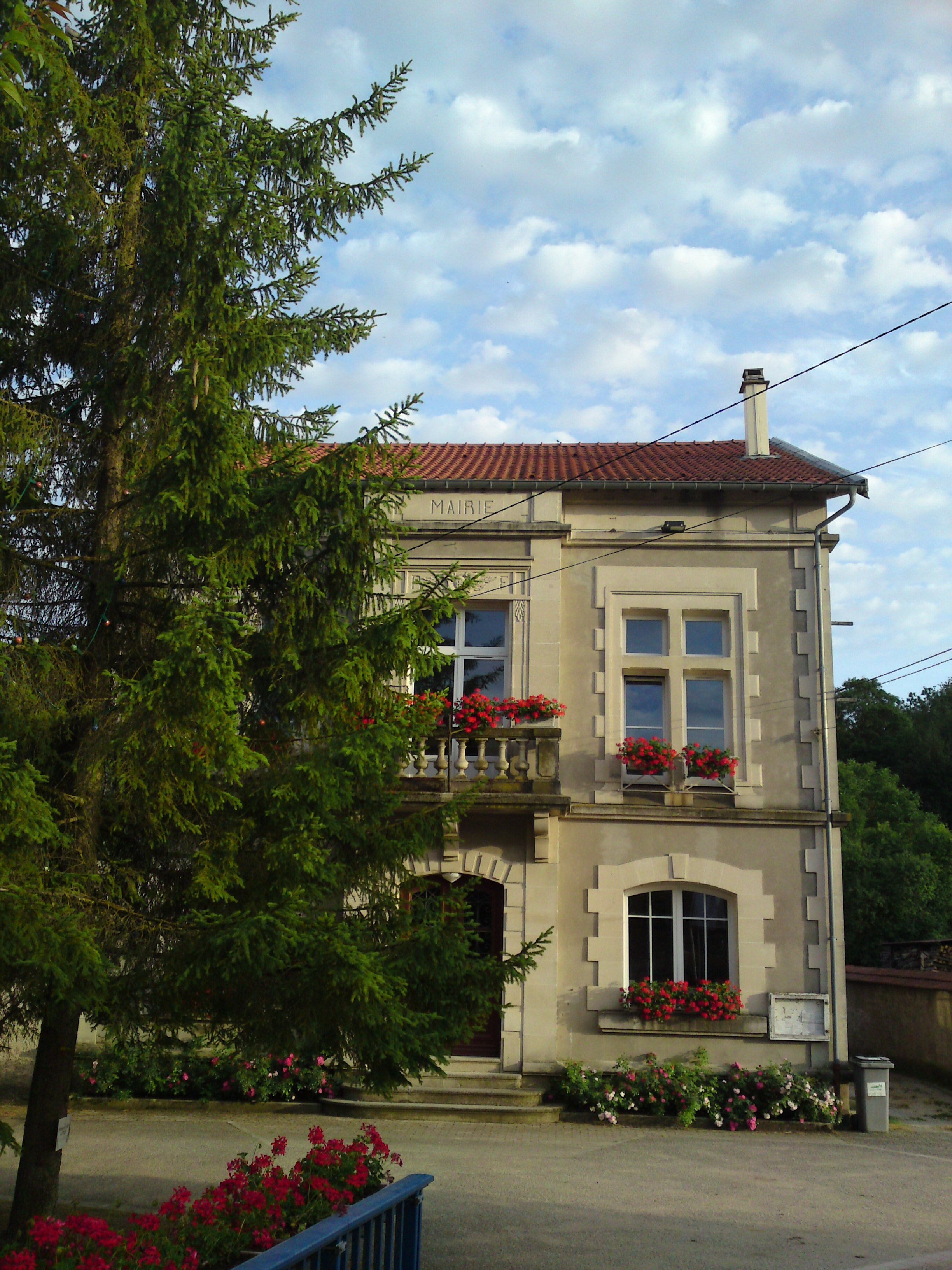 Town hall of the village of Dompierre-aux-Bois, France